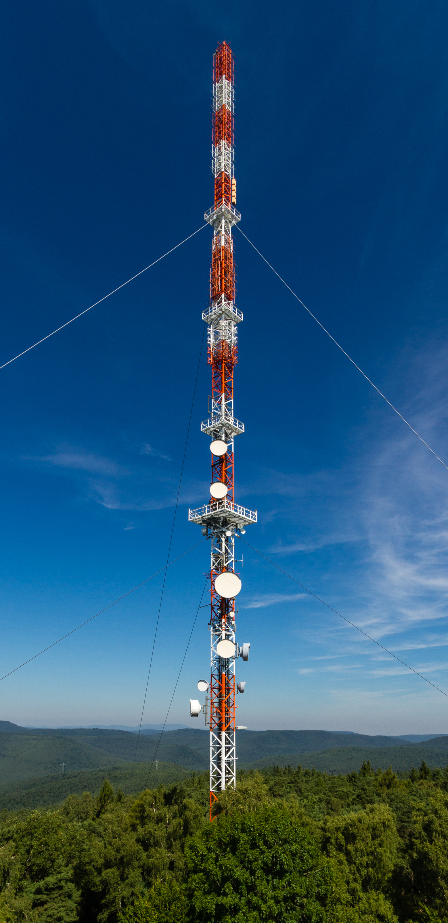 Transmission mast of the transmitter Weinbiet.